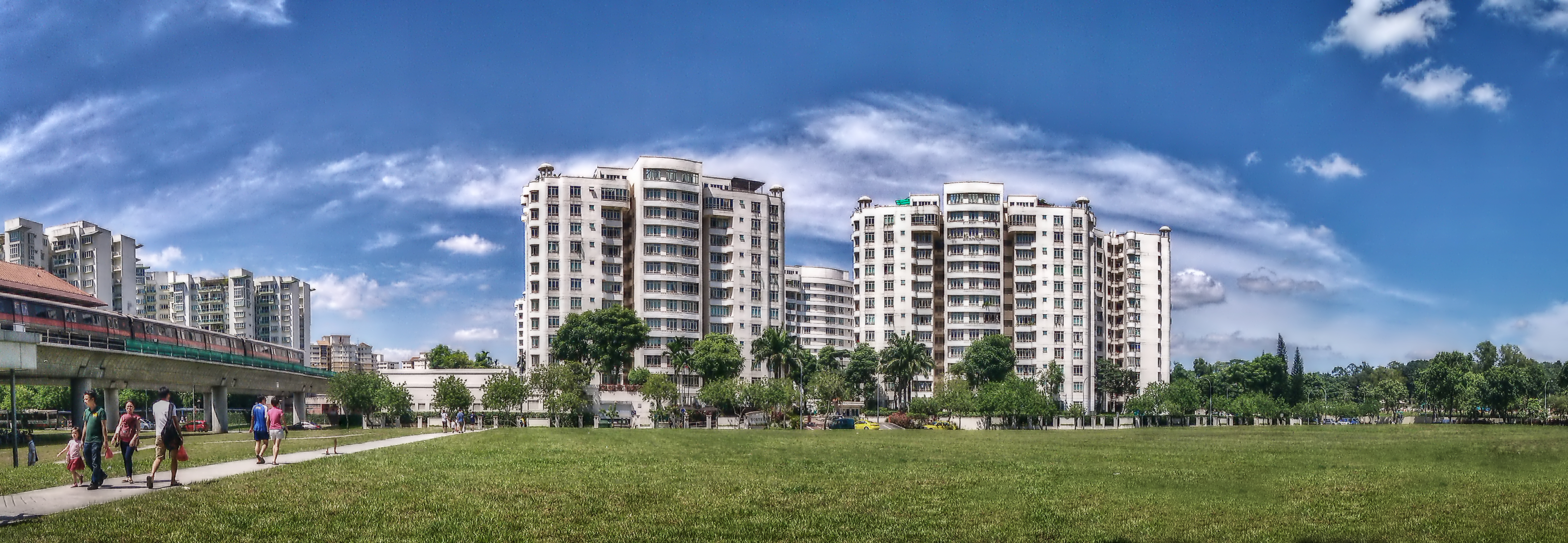 Condo buildings in Choa Chu Kang